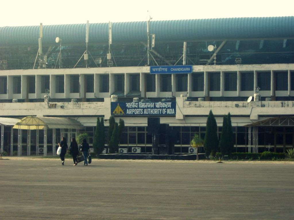 Phot taken by me at the Chandigarh Airport, India